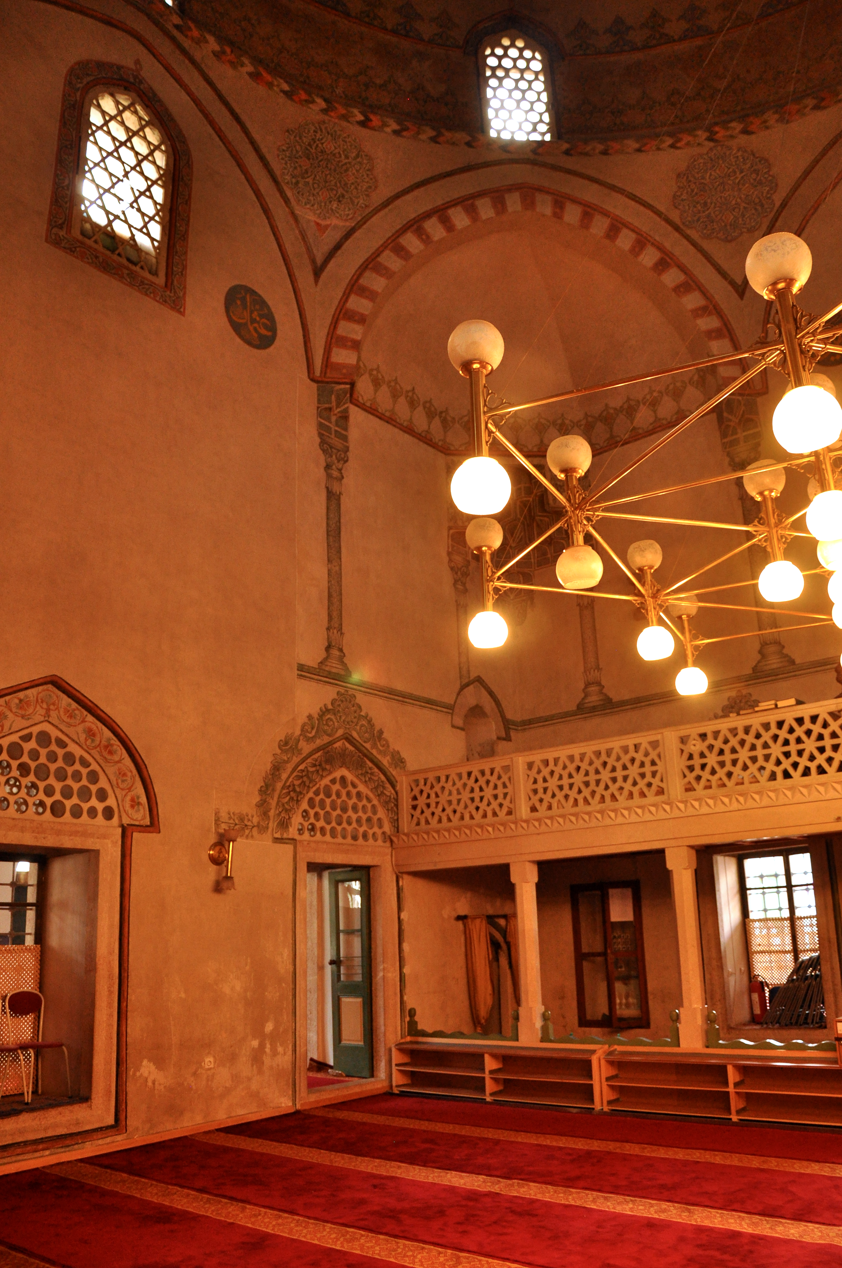 Built in 1566 on a site of the former mosque by Isa-Bey Ishakovic in 1457, the mosque was dedicated to Fatih Sultan Mehmet II and therefore later became known among people as the Tsar’s mosque. The original mosque was a complex with additional amenities such as saray (this means “court”—the name of Sarajevo derives from “saray”) and bridge. Osman Sehdi Bjelopoljac built a library in the mosque’s yard in 1759—this was the first public library in Sarajevo. In 1853 Fadil-pasha Serifovic built a muvekithana (observatory) used to measure time by the position of the stars and in 1857/58 he built a madrasah (Secondary Islamic School). Both were pulled down in 1910 in order to built the Residence of the Grand Mufti designed by Karel Pařik. The yard has over a hundred tombs, one of them assumed to belong to Isa-bey Ishakovic.